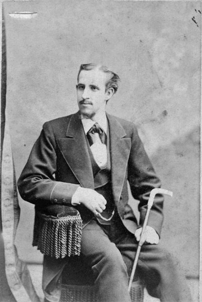 Picture of Henry T. Brush